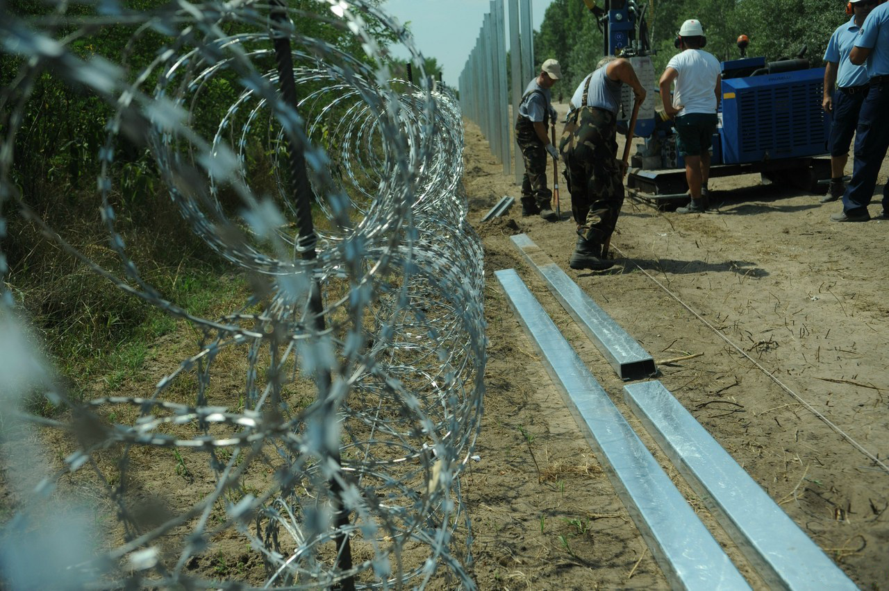 Construction of barrier in Hungarian-Serbian border